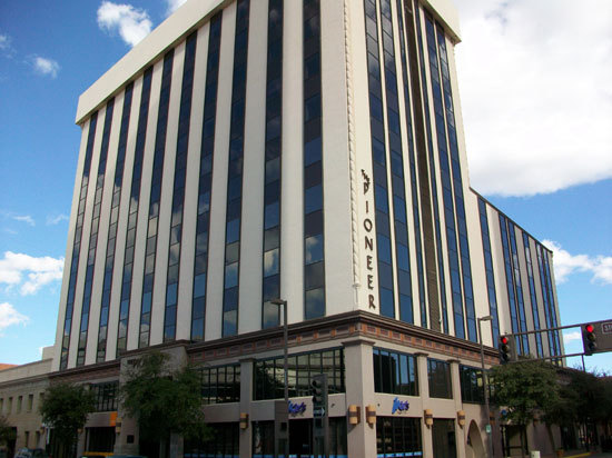 Author- Kathryn Hammond Photo Title- Pioneer Hotel Building in Tucson, Arizona Photo Date- Saturday, January 24, 2009 Terms of Use- Creative Commons Attribution-Noncommercial-No Derivative Works 3.0 Unported